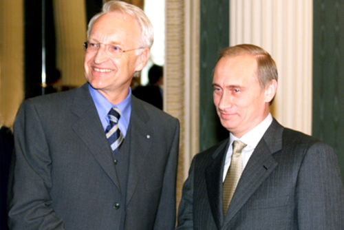 THE RUSSIAN EMBASSY, BERLIN. President Putin with Bavarian Minister-President and leader of the Christian Social Union Edmund Stoiber.